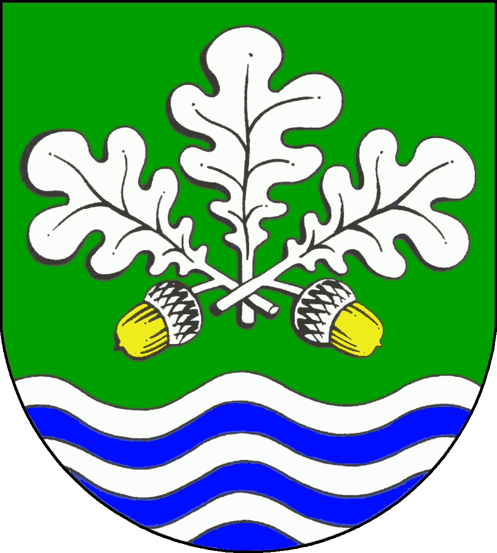 Coat of arms of the municipality Ecklak in Schleswig-Holstein, Germany.